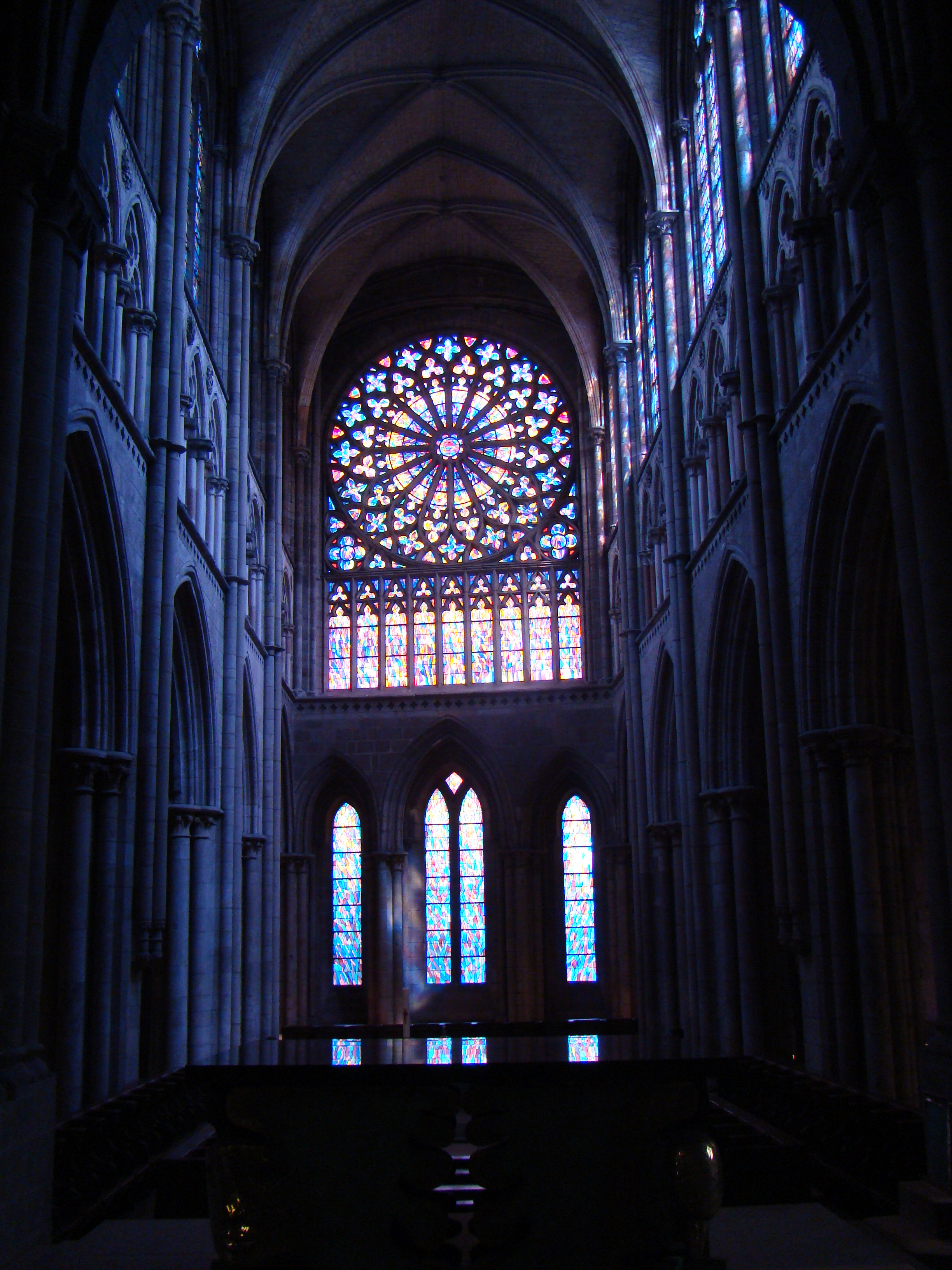 Saint Vincent cathedral - intérieur - stained glass windows by Jean Le Moal, (Saint-Malo, France)